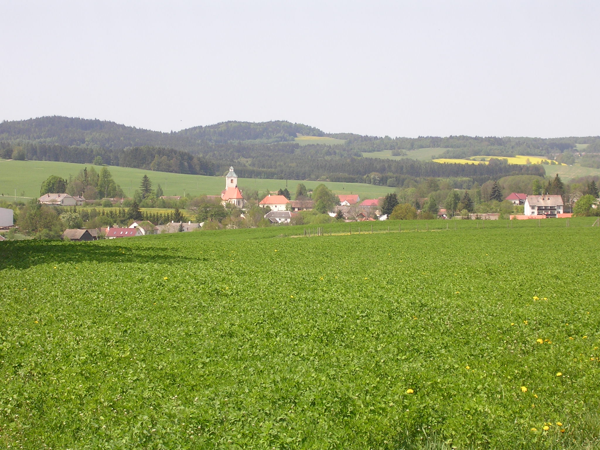 Volfířov, South Bohemian Region, the Czech Republic.